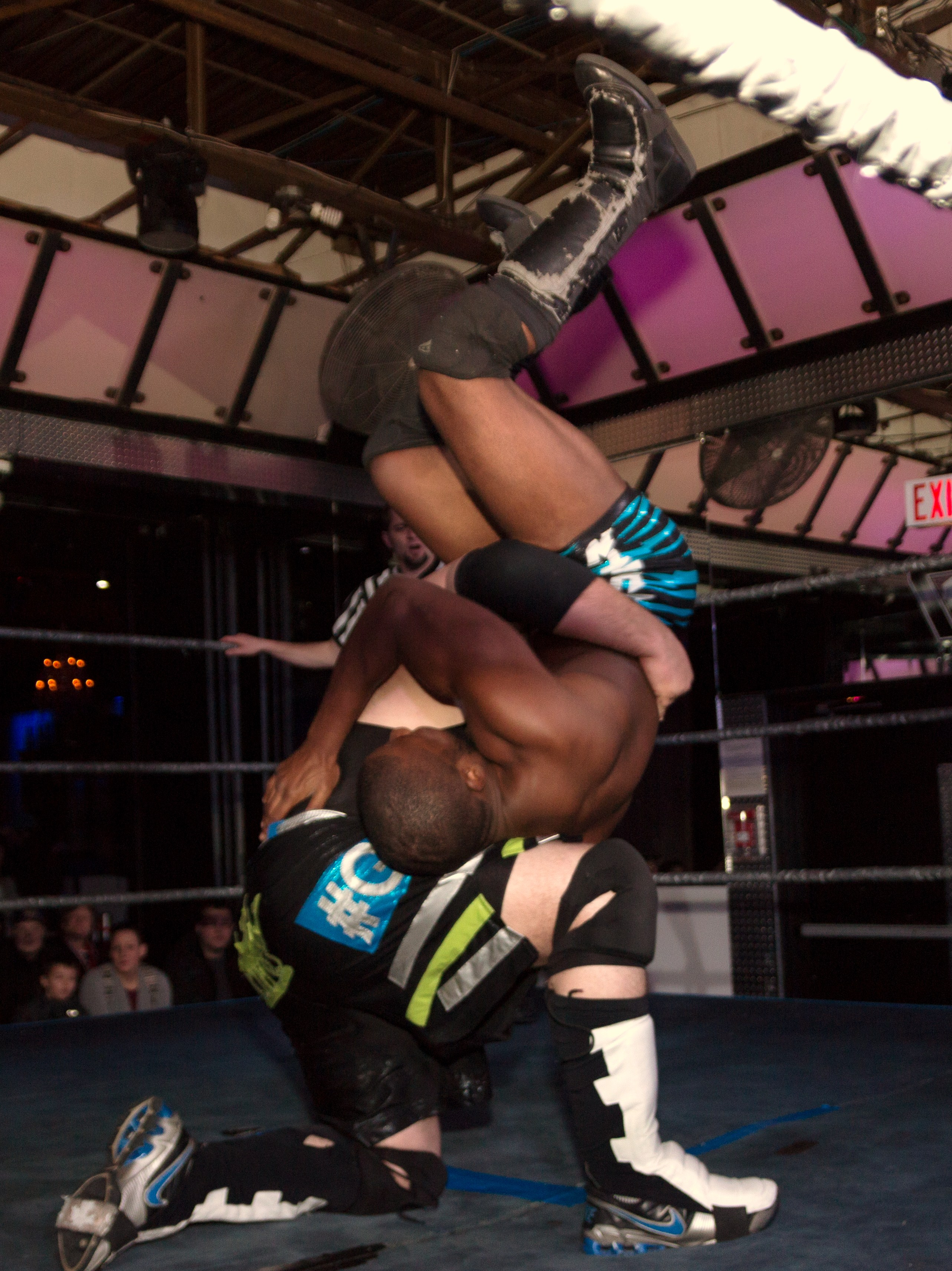 Wrestler Joey Kings (in black trunks) doing a tilt-a-whirl backbreaker on Justin Sane